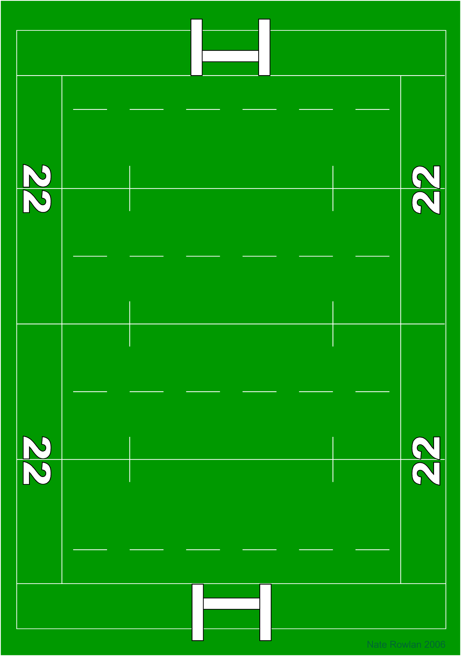 A rugby pitch.